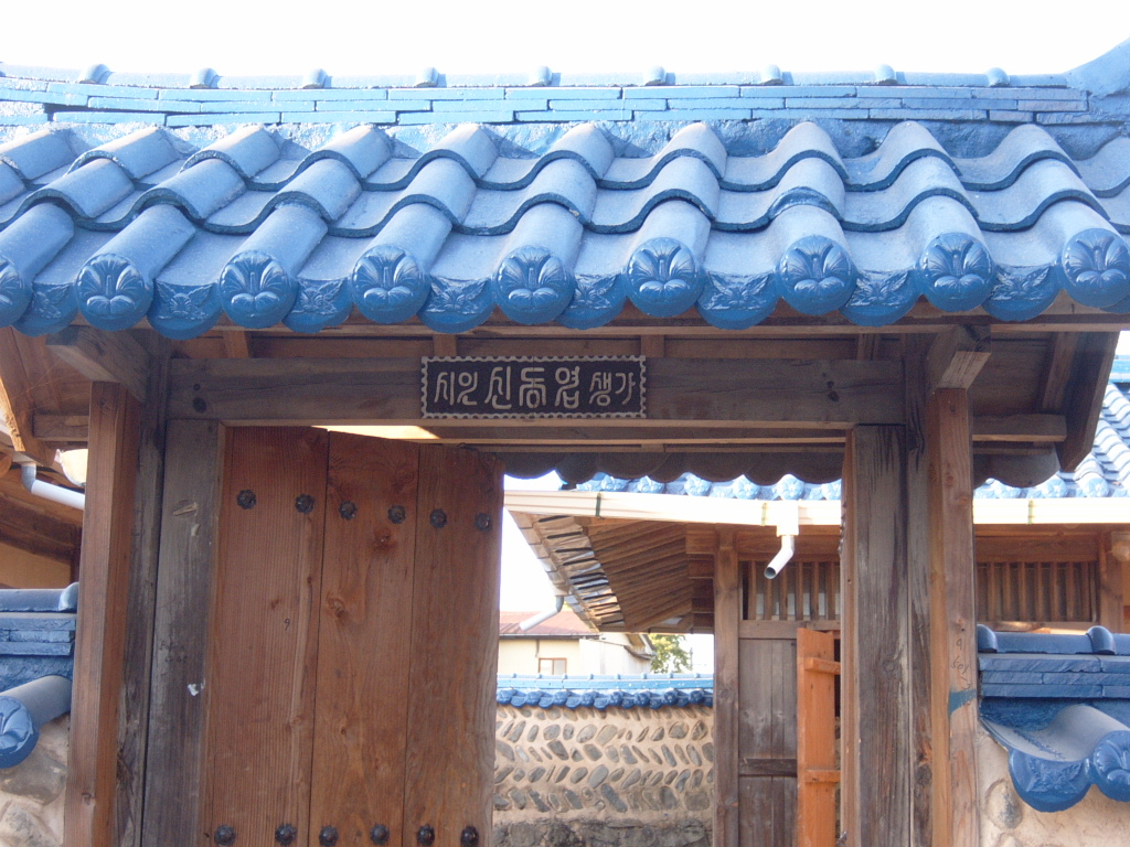 The house gate of Sin DongYeop’s birth